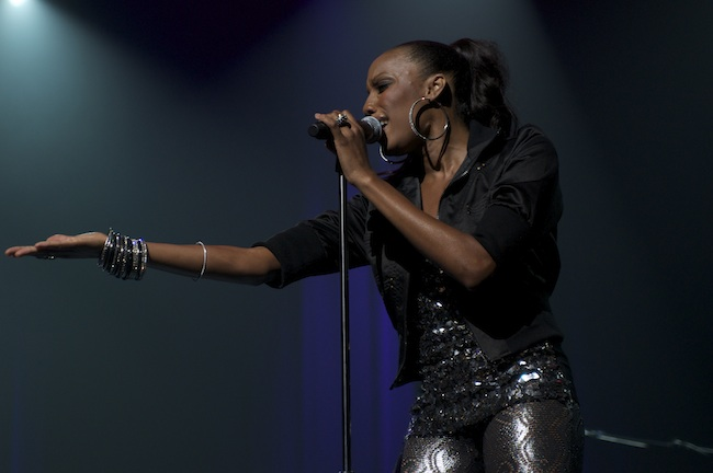 Rhona Bennett - Live in Concert (photo by Scott Dudelson)